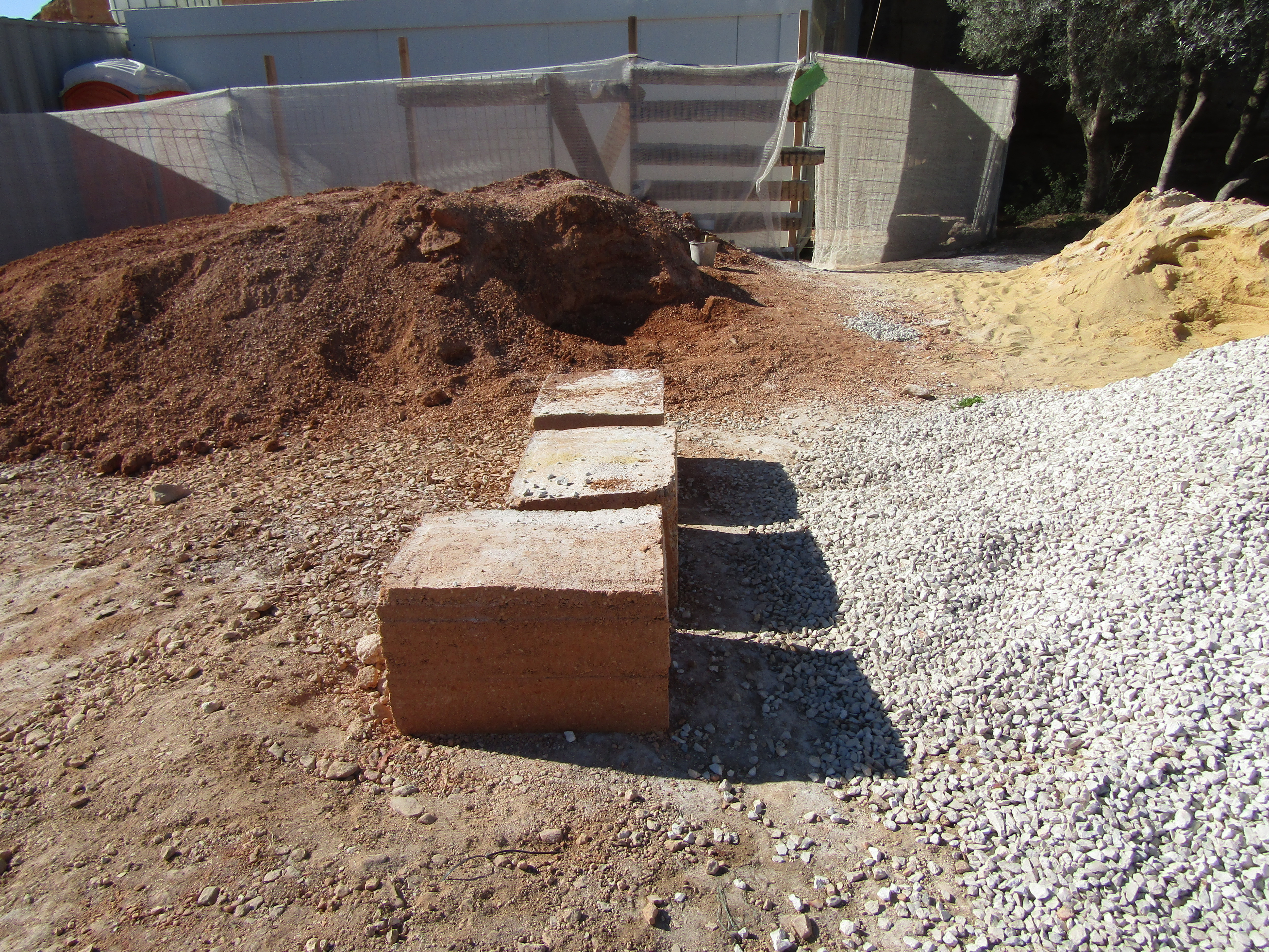 New cast Taipa blocks to be used on the restoration work being carried out on the Albarrana tower which is on the east facing elevation of Paderne castle, south of the village of Paderne, Albufeira, Algarve, Portugal.